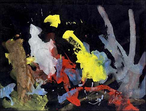 A painting of Congo (1954-1964), a chimpanzee who painted pictures at the ages of two to four years under the egis of Desmond Morris (*1928).